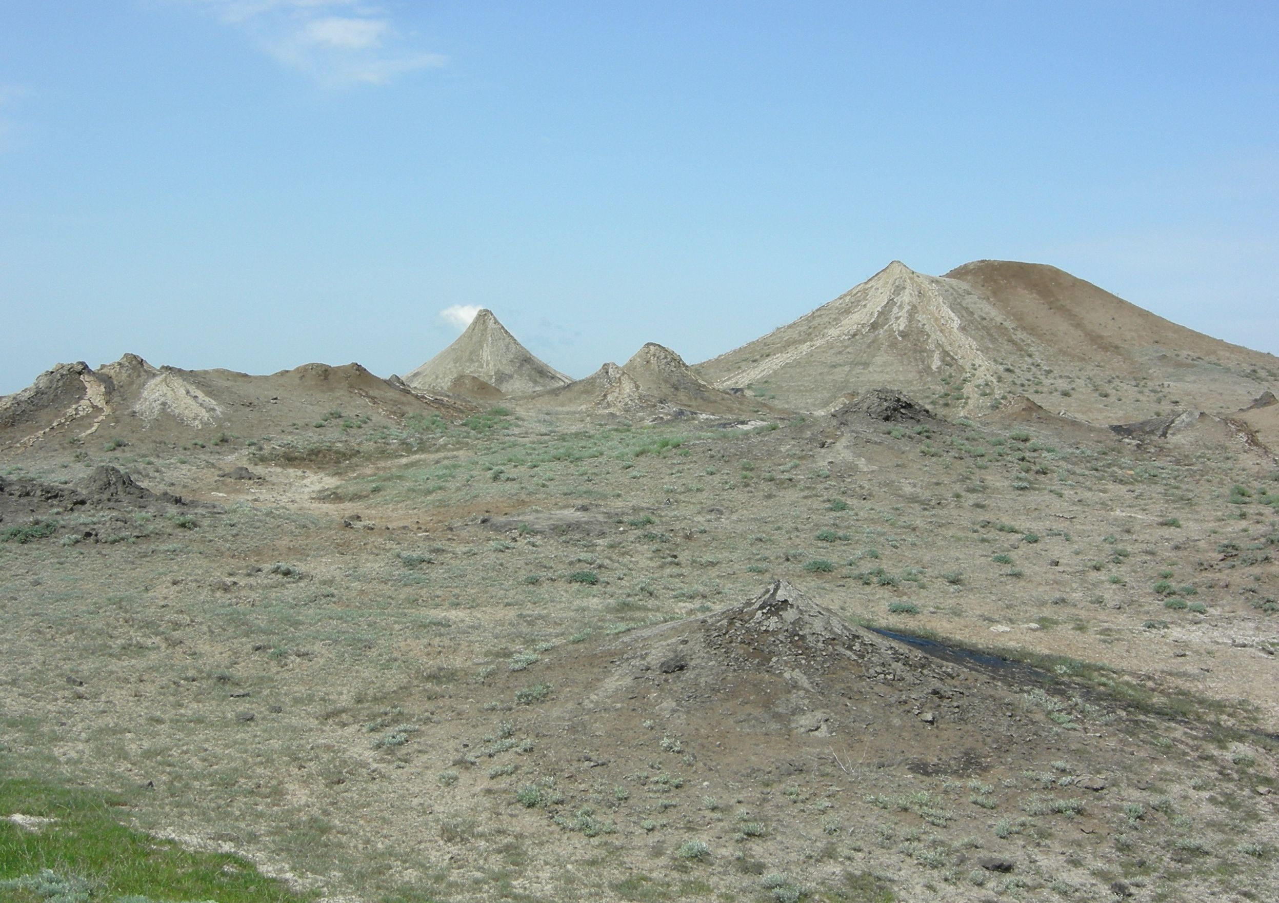 Mud volcanoes at Hacıqabul rayon, Azerbaijan